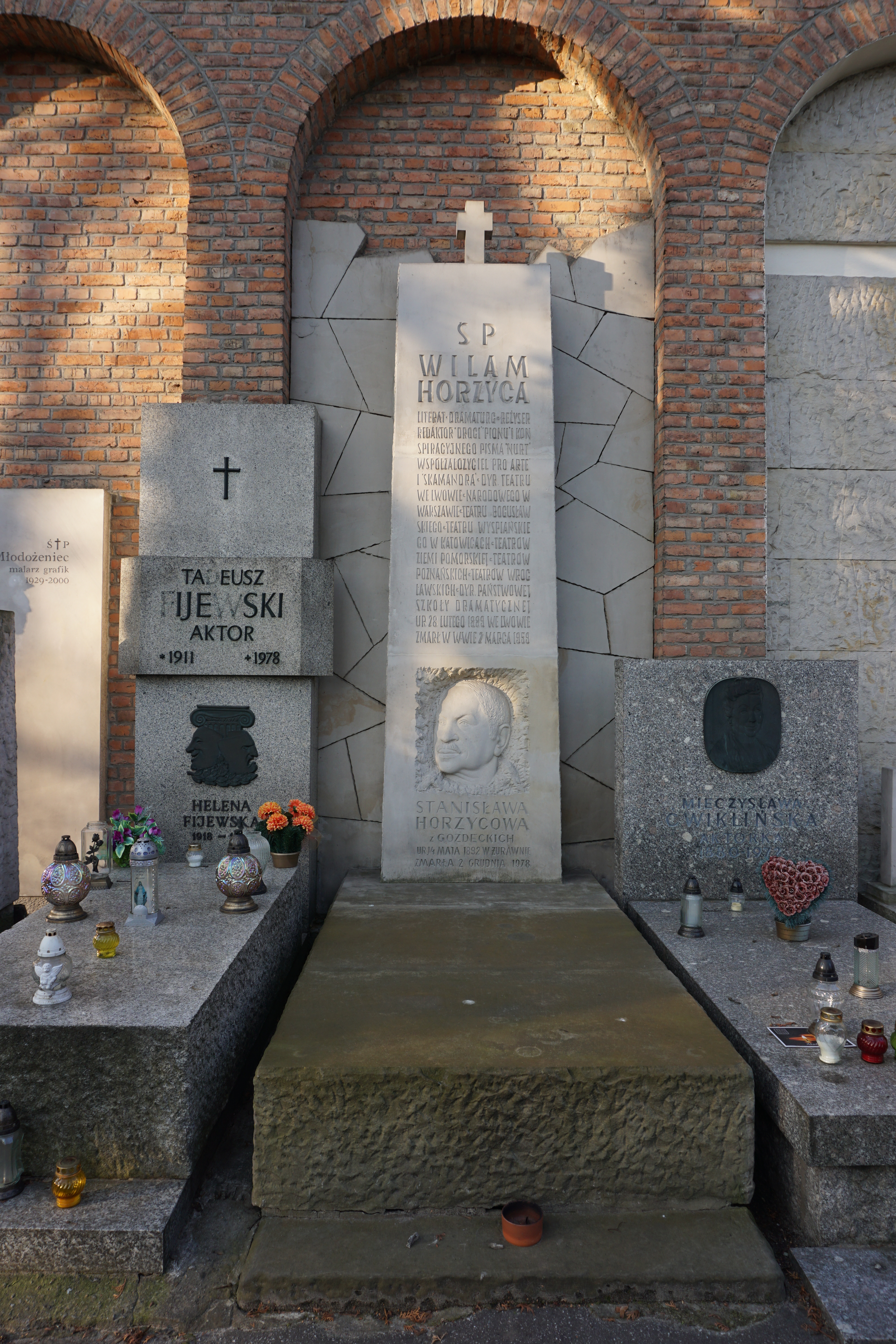 The grave of Wilam Horzyca at the Powązki Cemetery (Avenue of Deserved, grave 95)